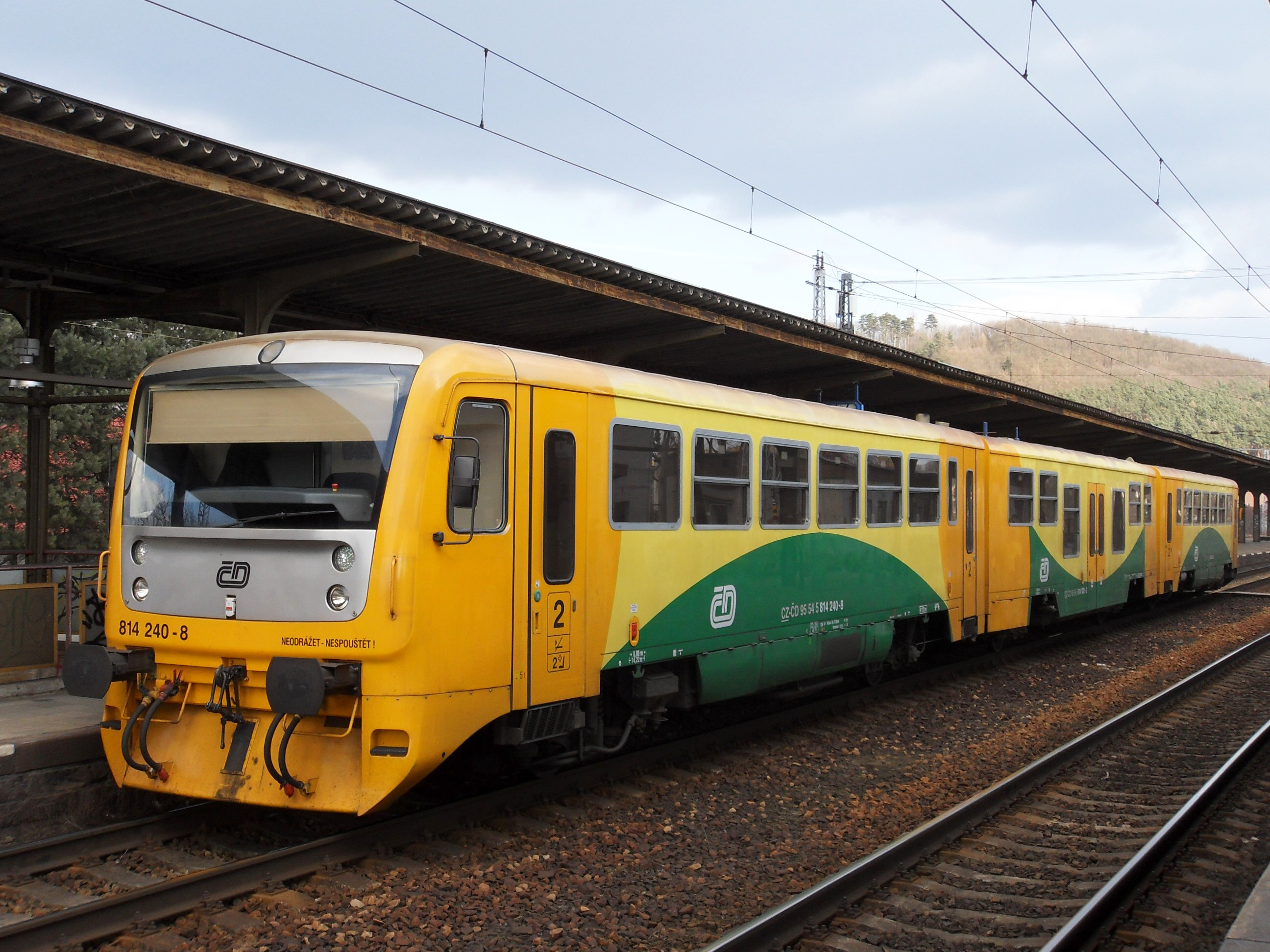 814.239/014.020/814.240 diesel multiple unit of České dráhy, station Kuřim, Czech Republic